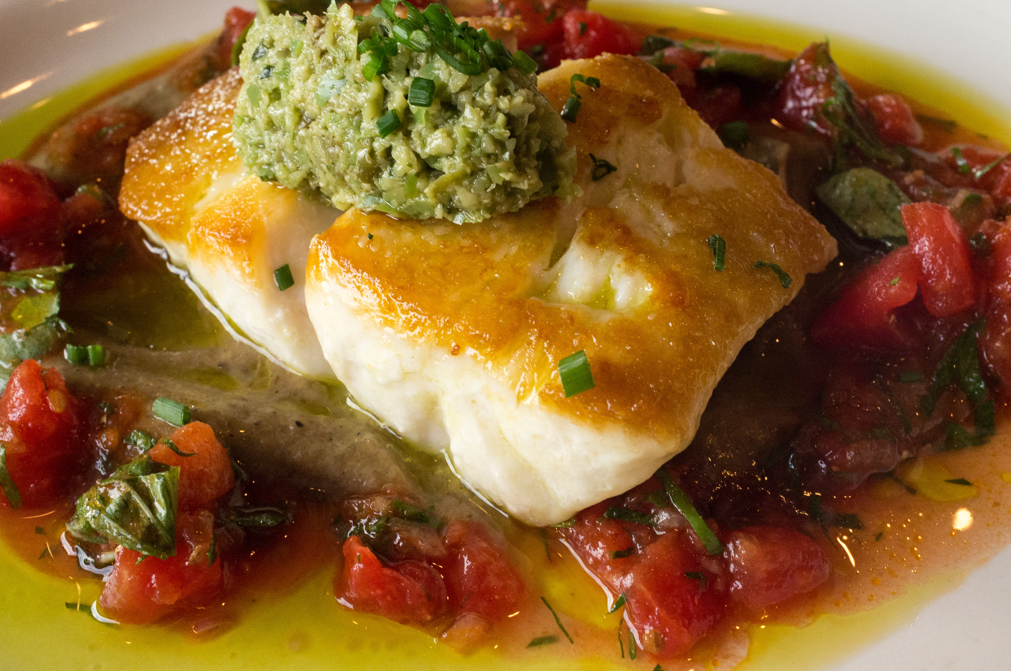 Gulf Red Snapper with sauce vierge, eggplant puree and olive tapenade at Ollie Irene restaurant in Mountain Book, Alabama. I ate most of this but gave Jenny a portion.